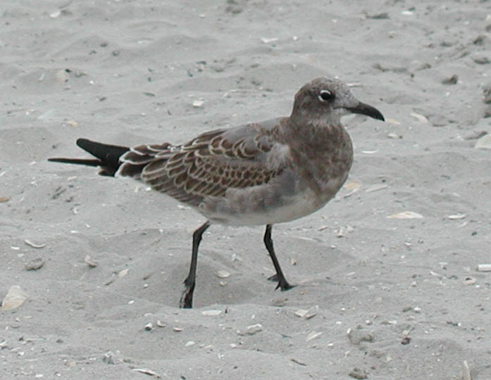 A juvenile Laughing Gull on the beach at Atlantic City. Taken by Raul654 on August 24, 2004. Released under the GFDL